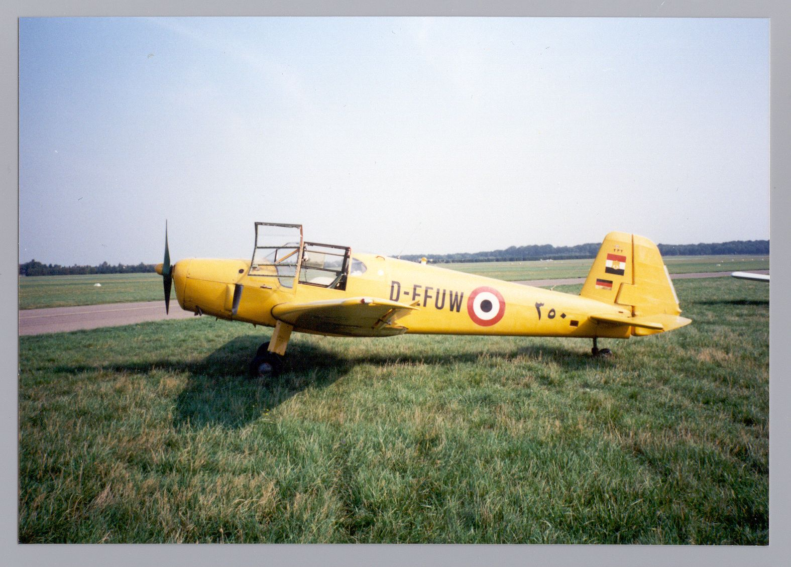 Bücker Bü 181 Bestmann